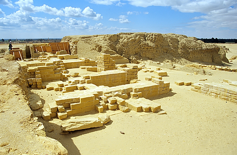 Stone temple of Soknobkonneus, Umm el-Athl (Bacchias), el-Fayyum, Egypt